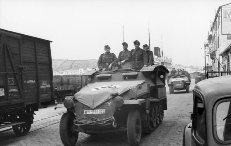 Information added by Wikimedia users.Member of the 7. Panzer-Division[1]